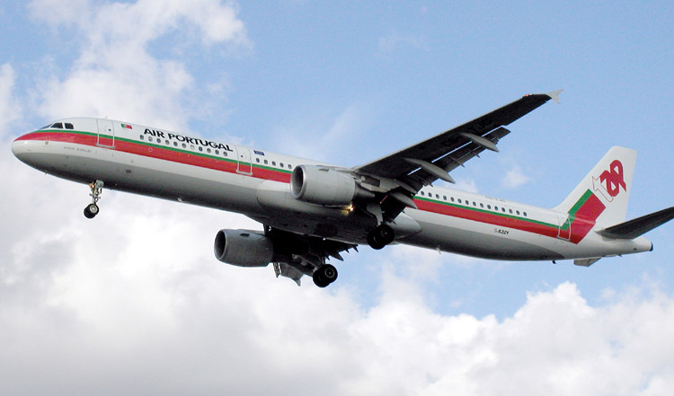 Airbus A321-211 of Air Portugal (CS-TJG) on the approach to London (Heathrow) Airport